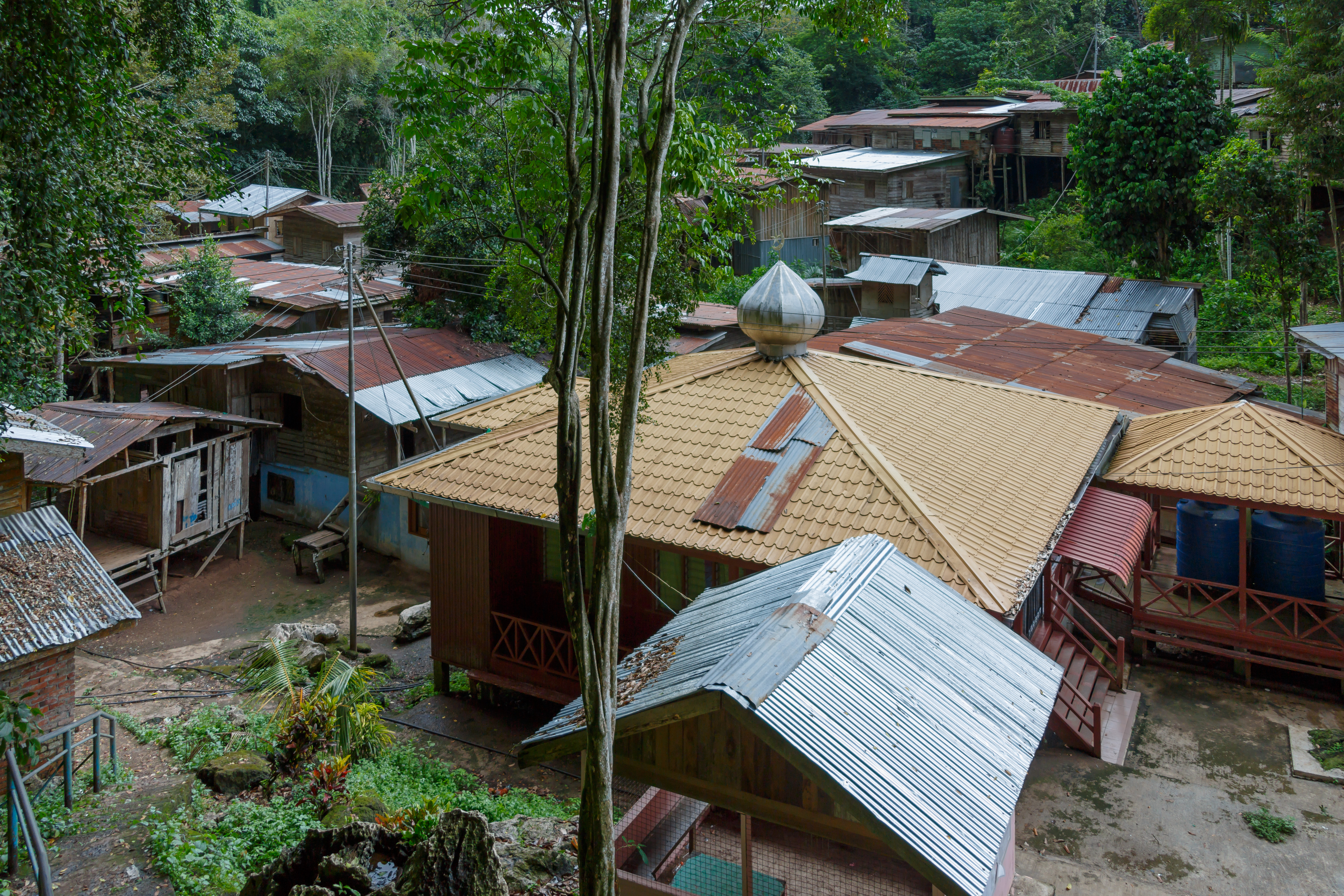 Kg Madai, Sabah: Kg Madai, an Idahan village that is renowned for its cave and the harvesting of swiftlets bird nests)